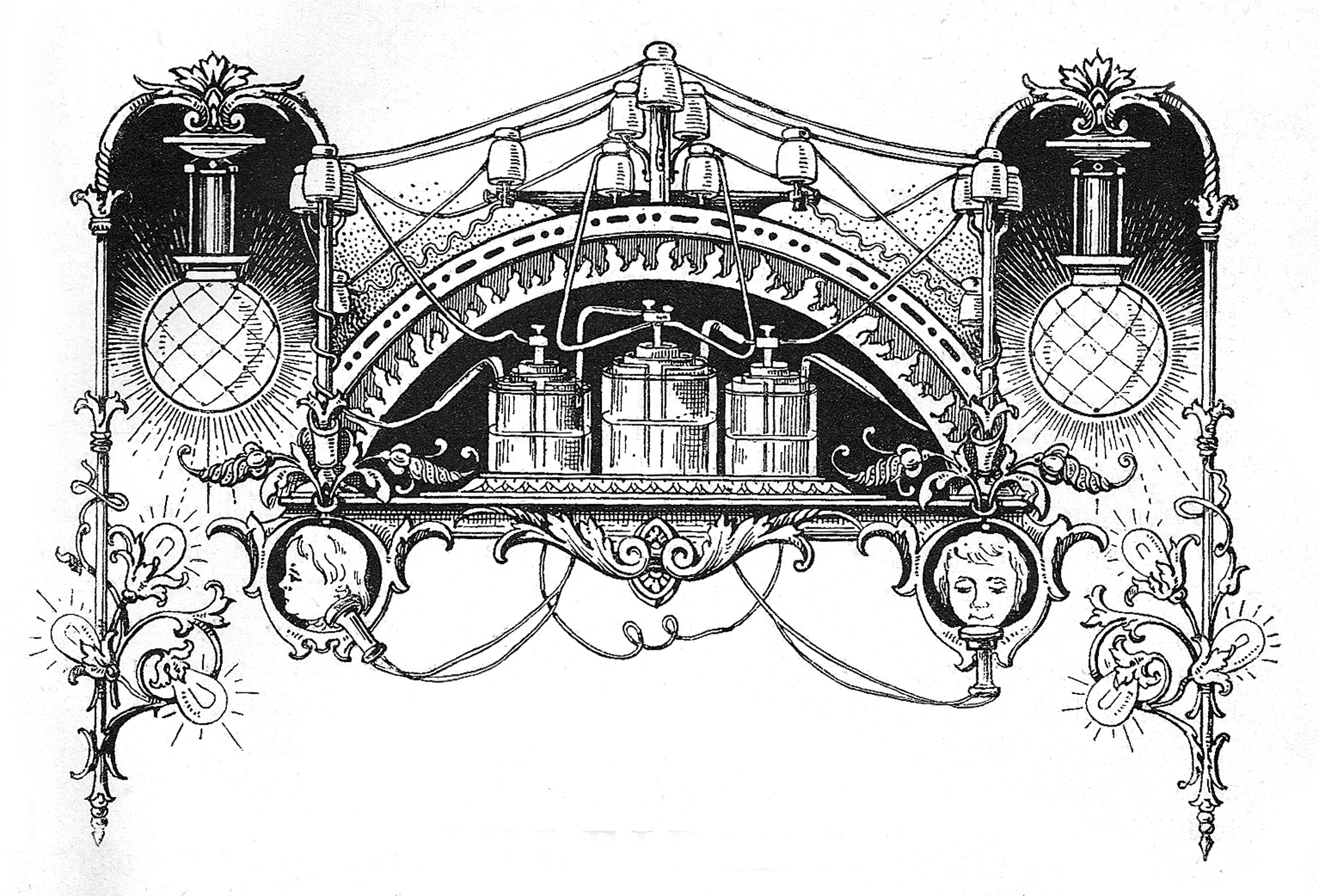 symbolic drawing of "The Electricity"